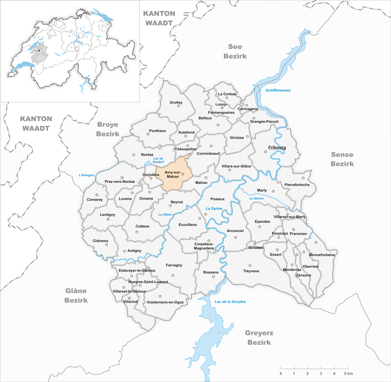 Municipality Avry-sur-Matran Artist: Tschubby